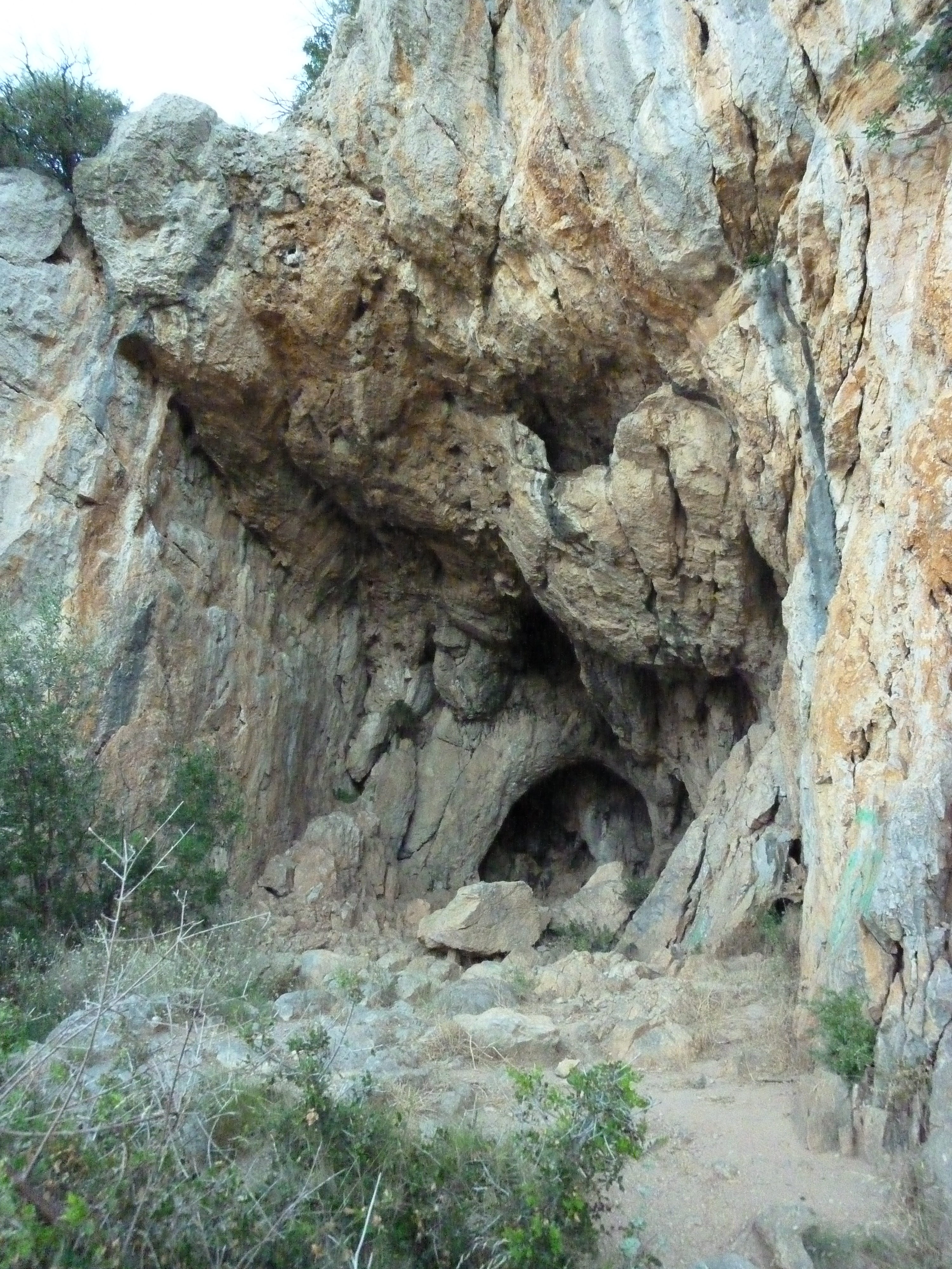 General appearance of the Cau del Duc de Torroella in the mountain of Santa Caterina (Torroella de Montgrí, Baix Empordà, Catalunya)